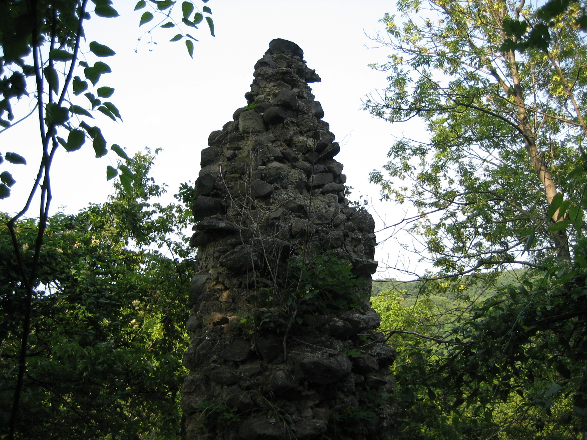 ruins of Balogvár